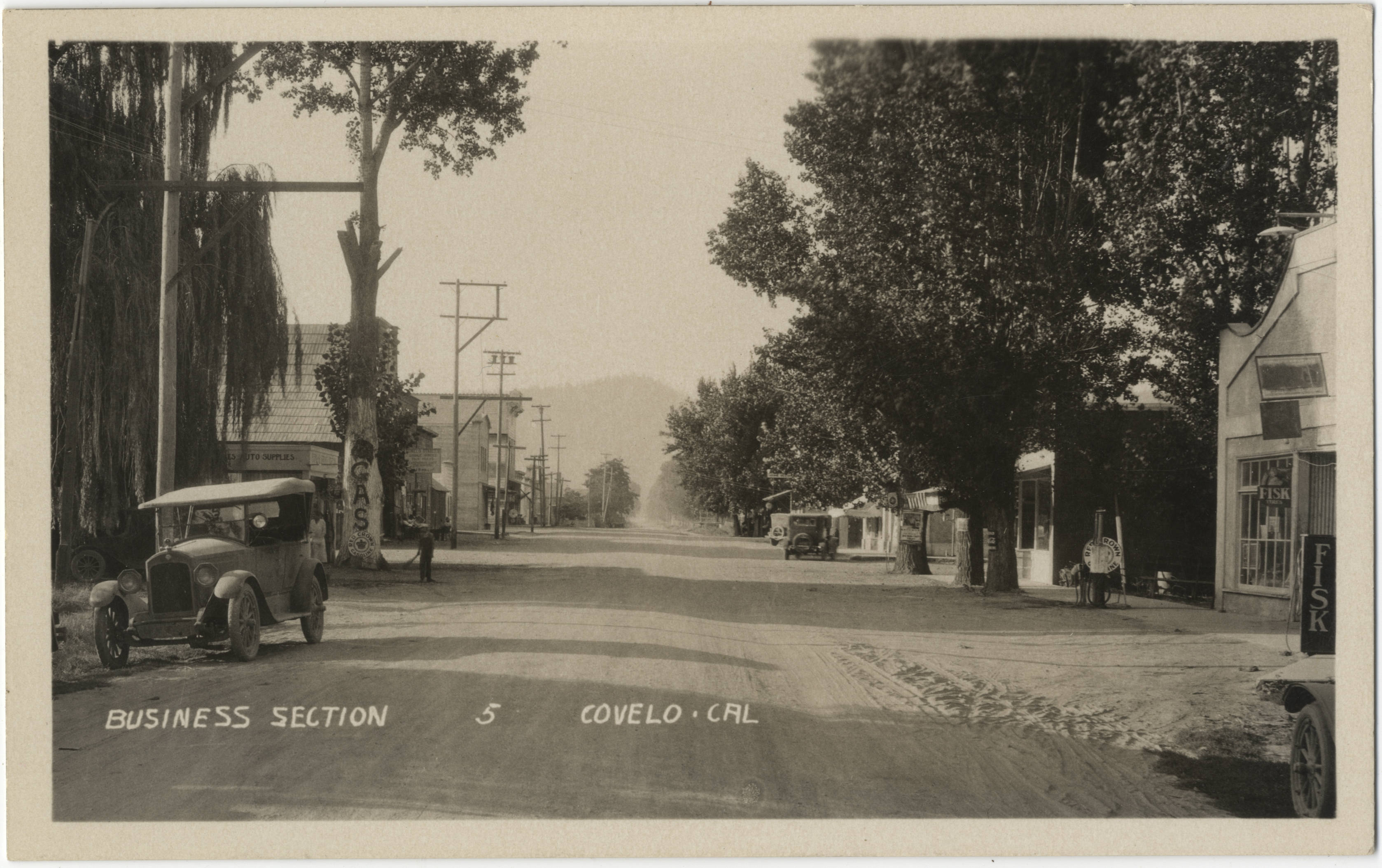 Photograph shows Business section, Covelo, Calif.